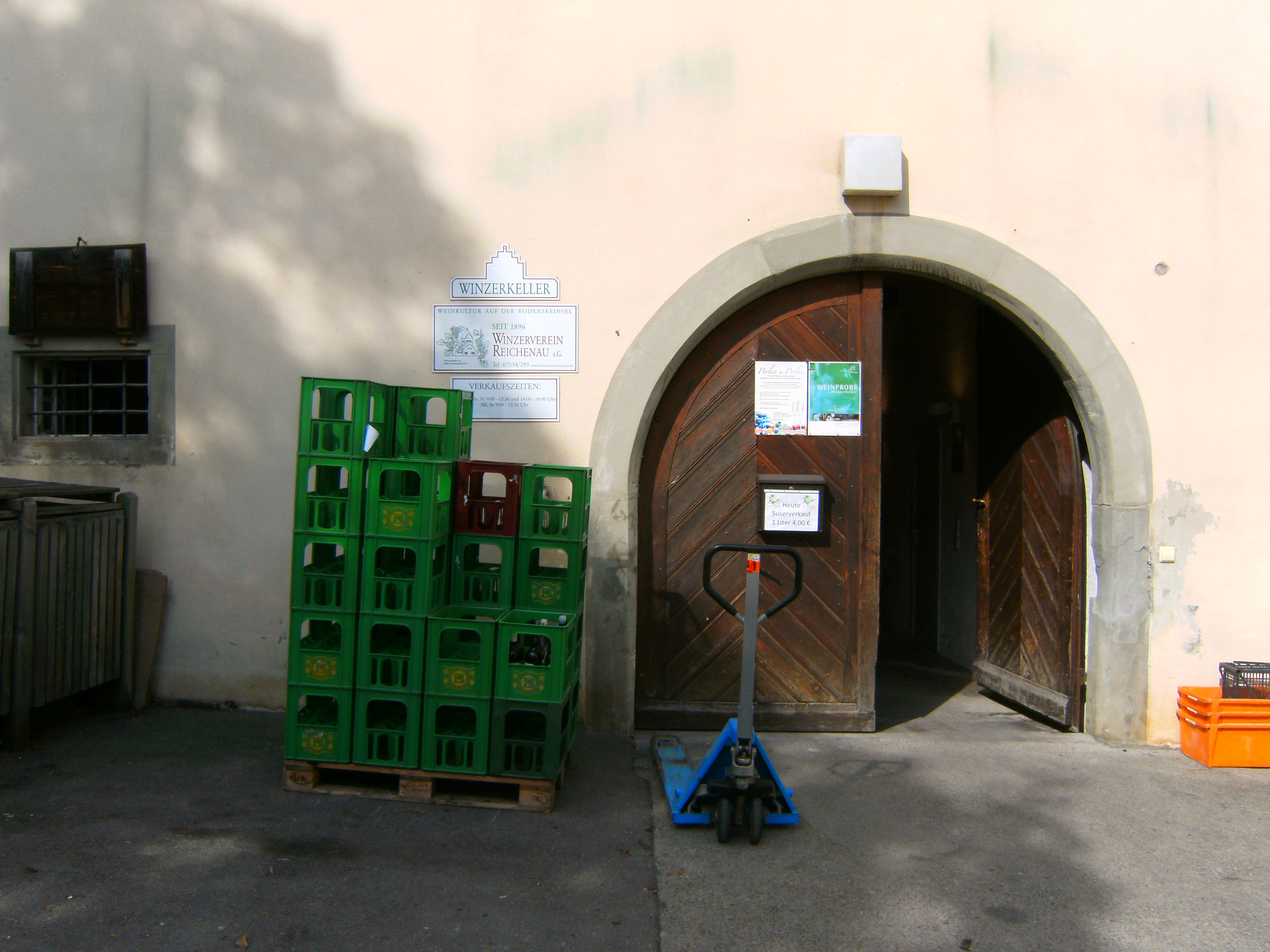 Reichenau Island: Entrance to the cellar of the winecooperative Reichenau (Winzerverein Reichenau).